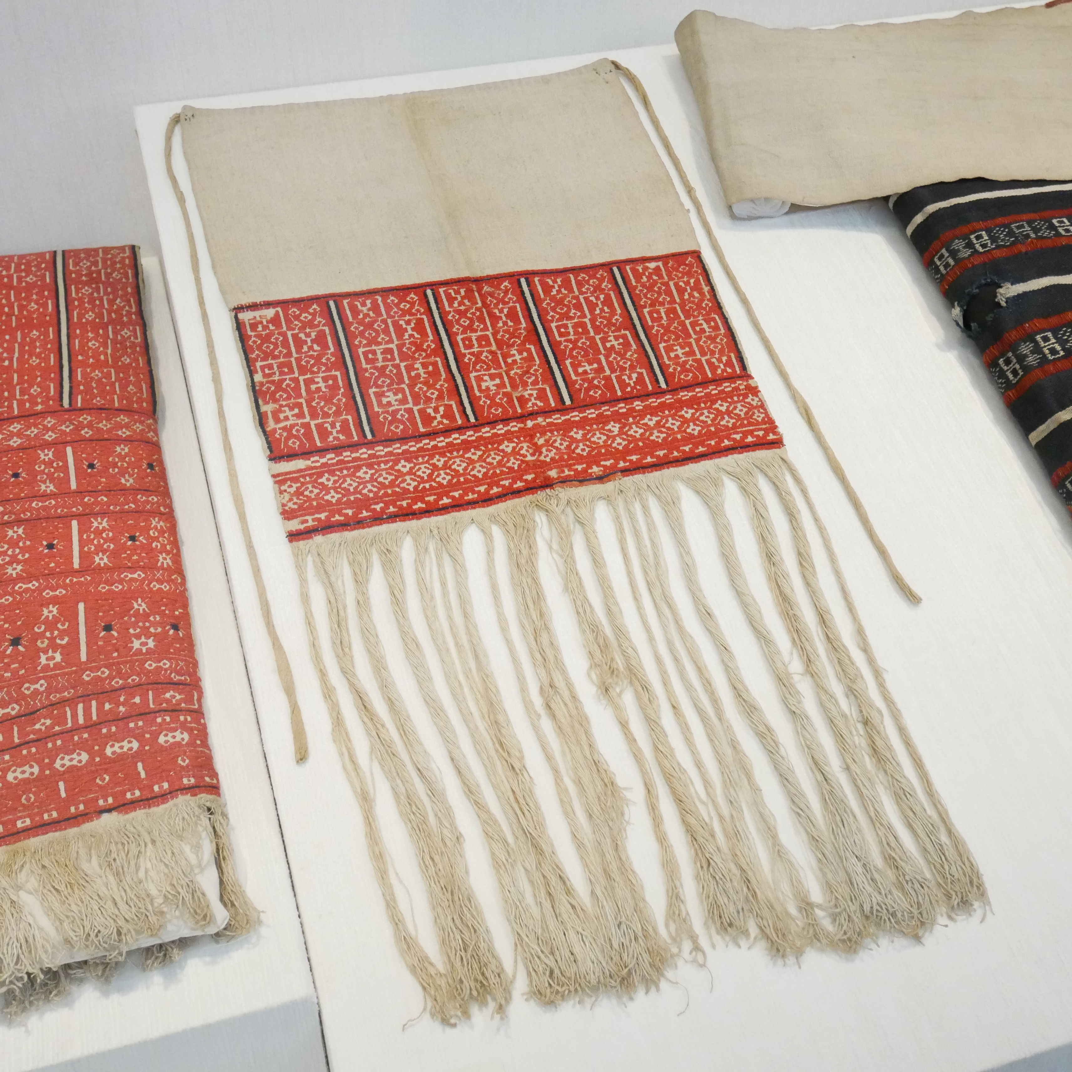 伊東實採集噶哈巫族牛眠社（臺中州能高郡埔里街牛眠山）女用織花前遮布（昭和十三年（1938年）6月4日入藏臺北帝國大學），臺北市大安區學府次分區學府里